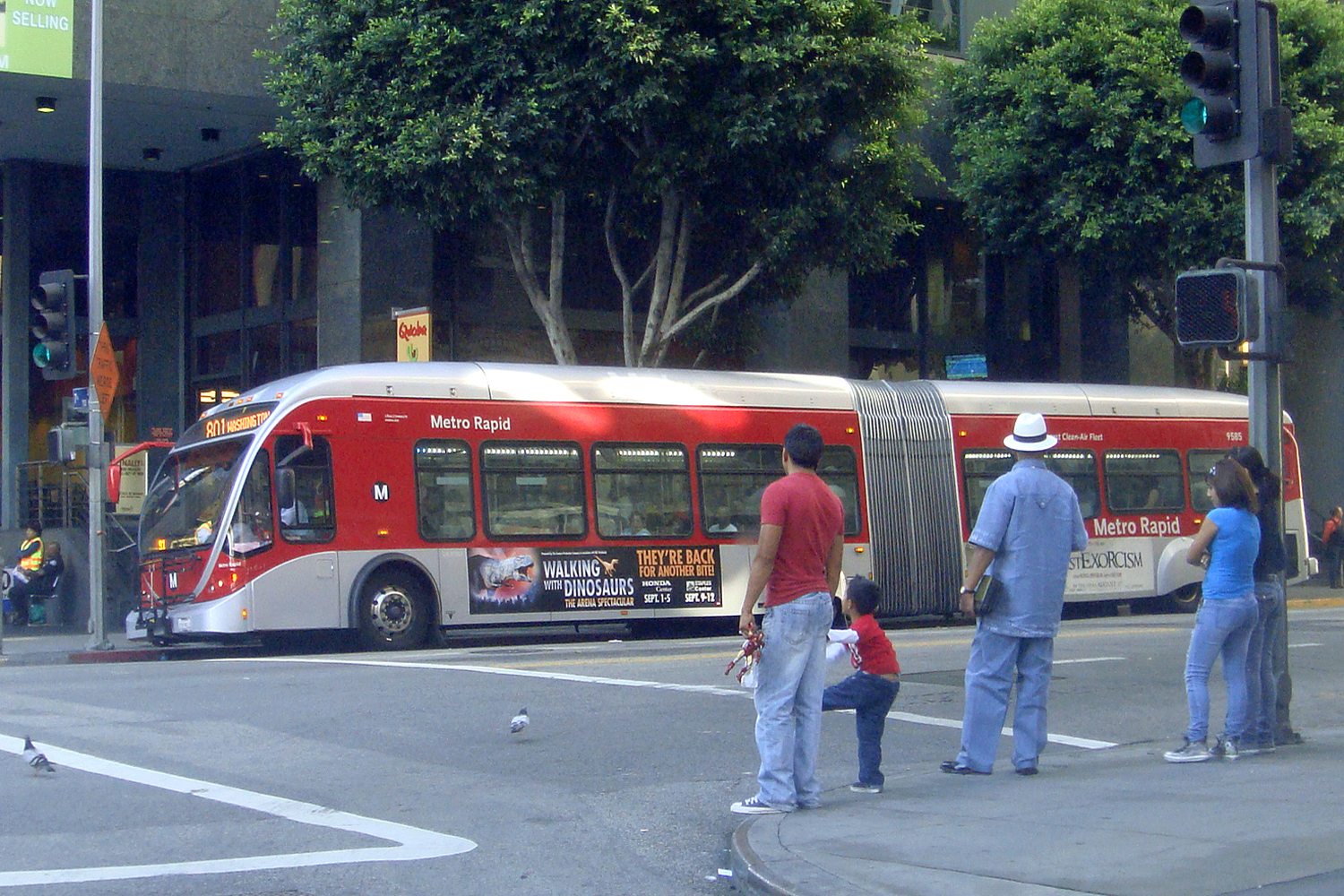 Metro Rapid articulated bus in downtown Los Angeles